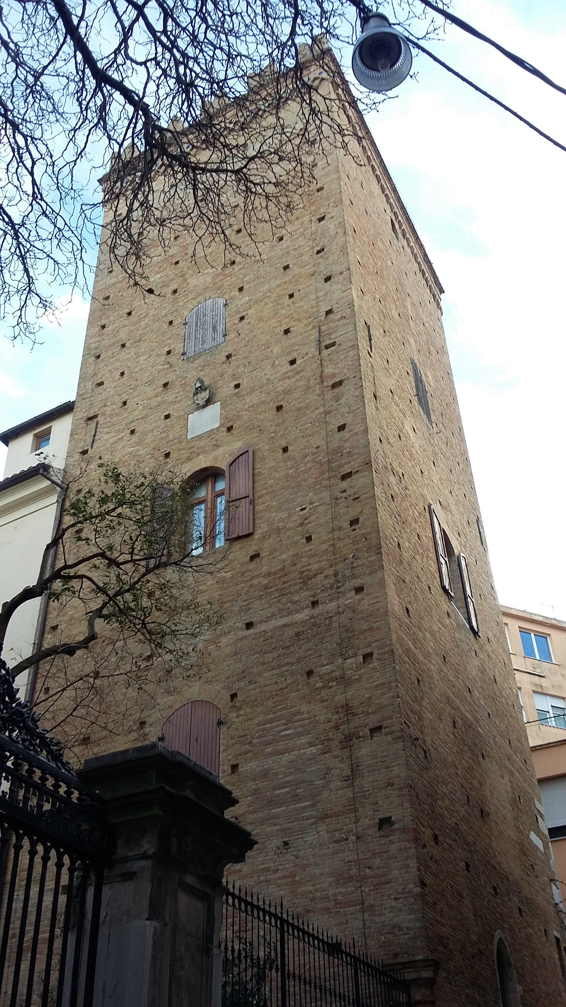 The tower of Archbishop's Palace was built thanks to Colantonio Valignani in 1470.